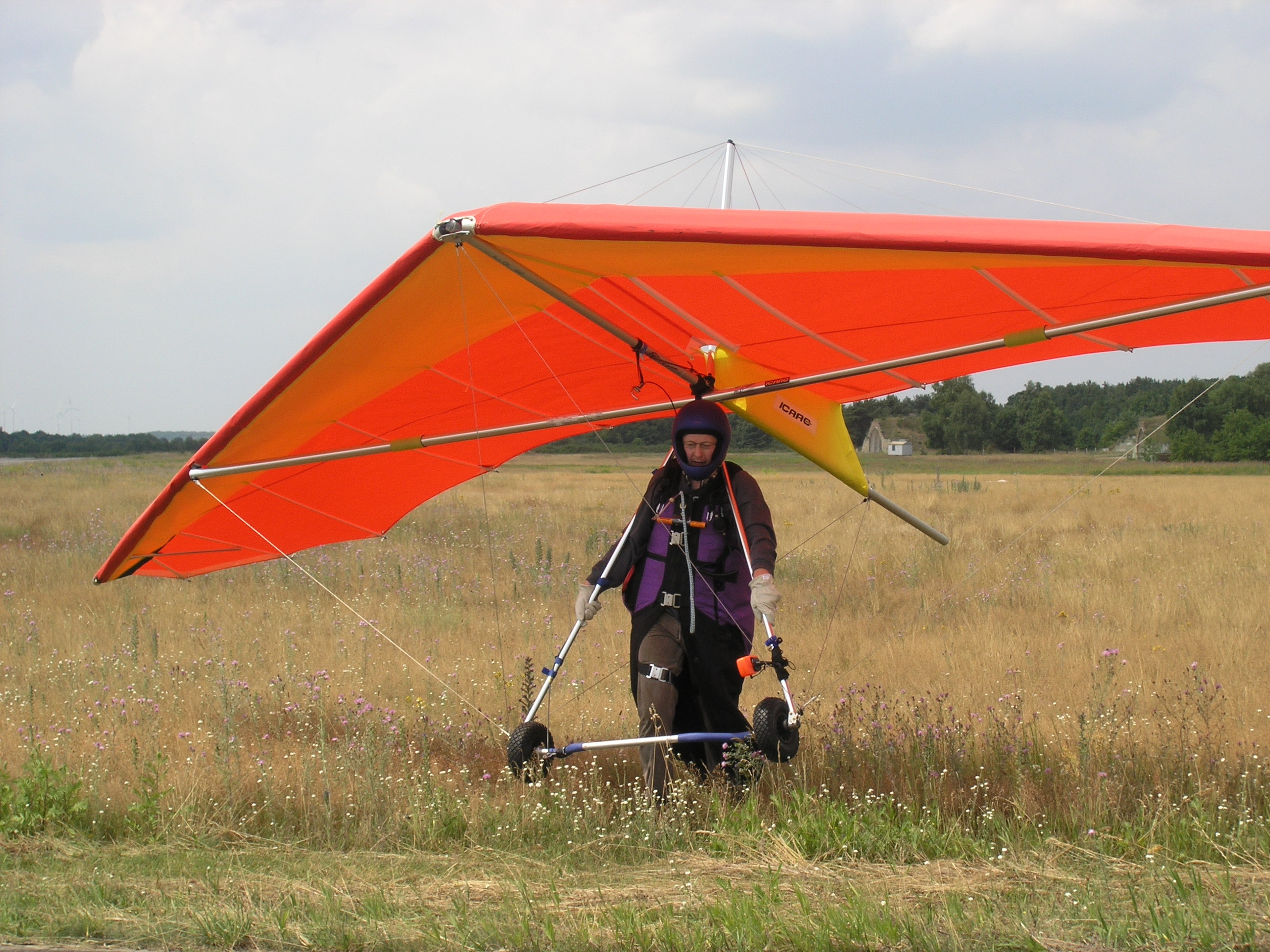 A pilot takes his hang glider to the margin of the landing field. Date: September 2005 Place: Altes Lager, Germany Glider: Mars 170, Icaro Pilot: Christoph Schacht Photographer: Kai-Martin Knaak Copyright under GFDL granted by Kai-Martin Knaak